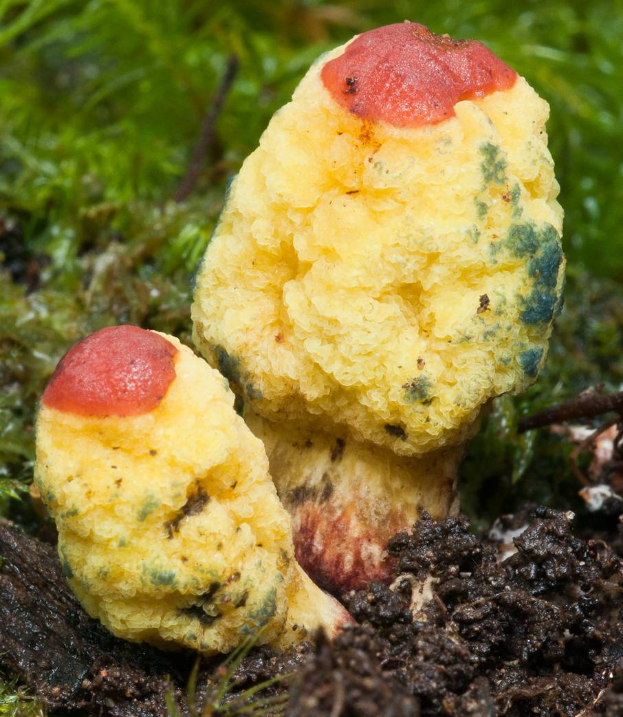 Fruit bodies of the fungus Gymnogaster boletoides J.W. Cribb. Specimen photographed at Wilson River Primitive Reserve, New South Wales, Australia.